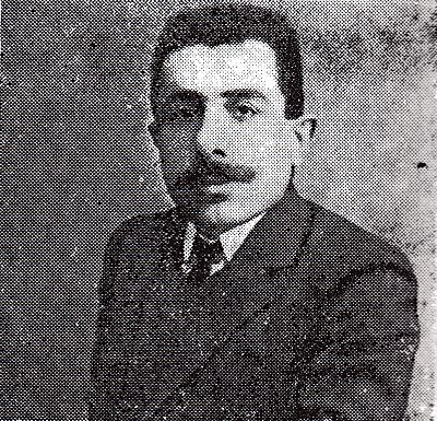 From: N.A. Արդի հայական գրականութիւն Բ հատոր, [Modern Armenian literature], 2002, pg. 154